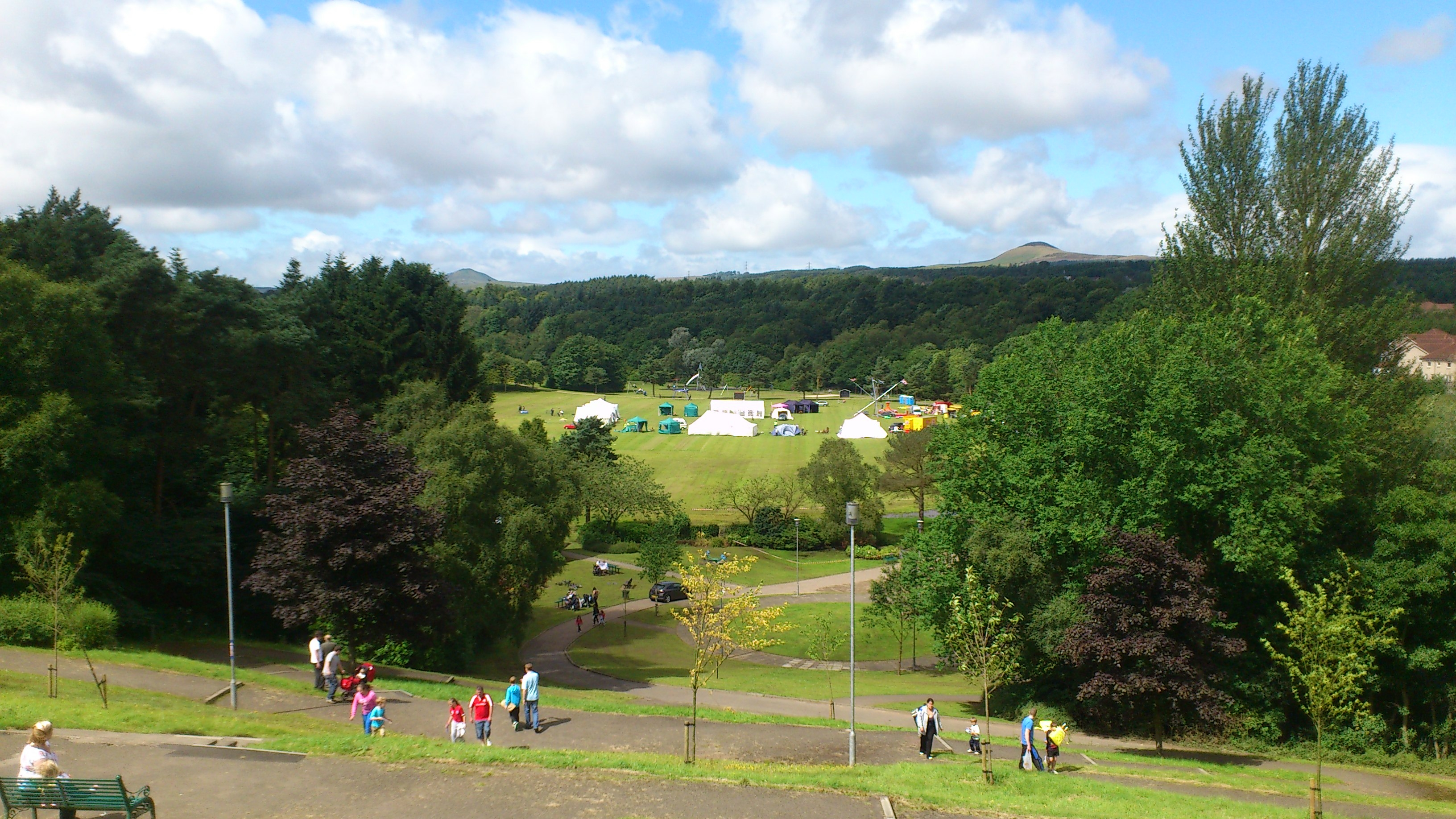 An image of the Riverside Festival being set-up in 2012.